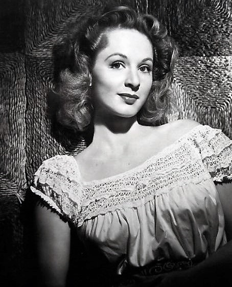 Elaine Shepard